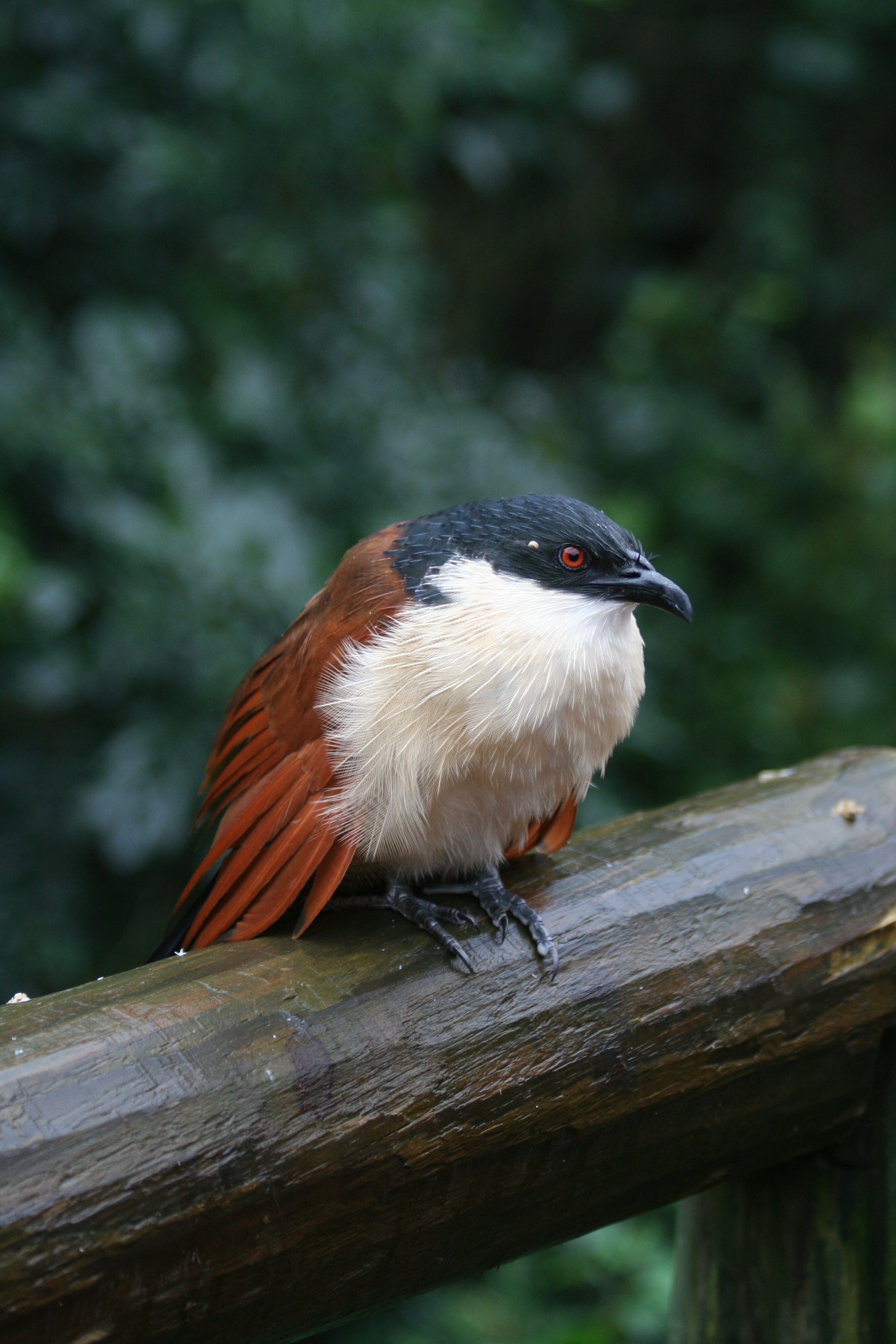 Burchell's Coucal Centropus burchellii, captive at Birds of Eden, Plettenberg, South Africa.